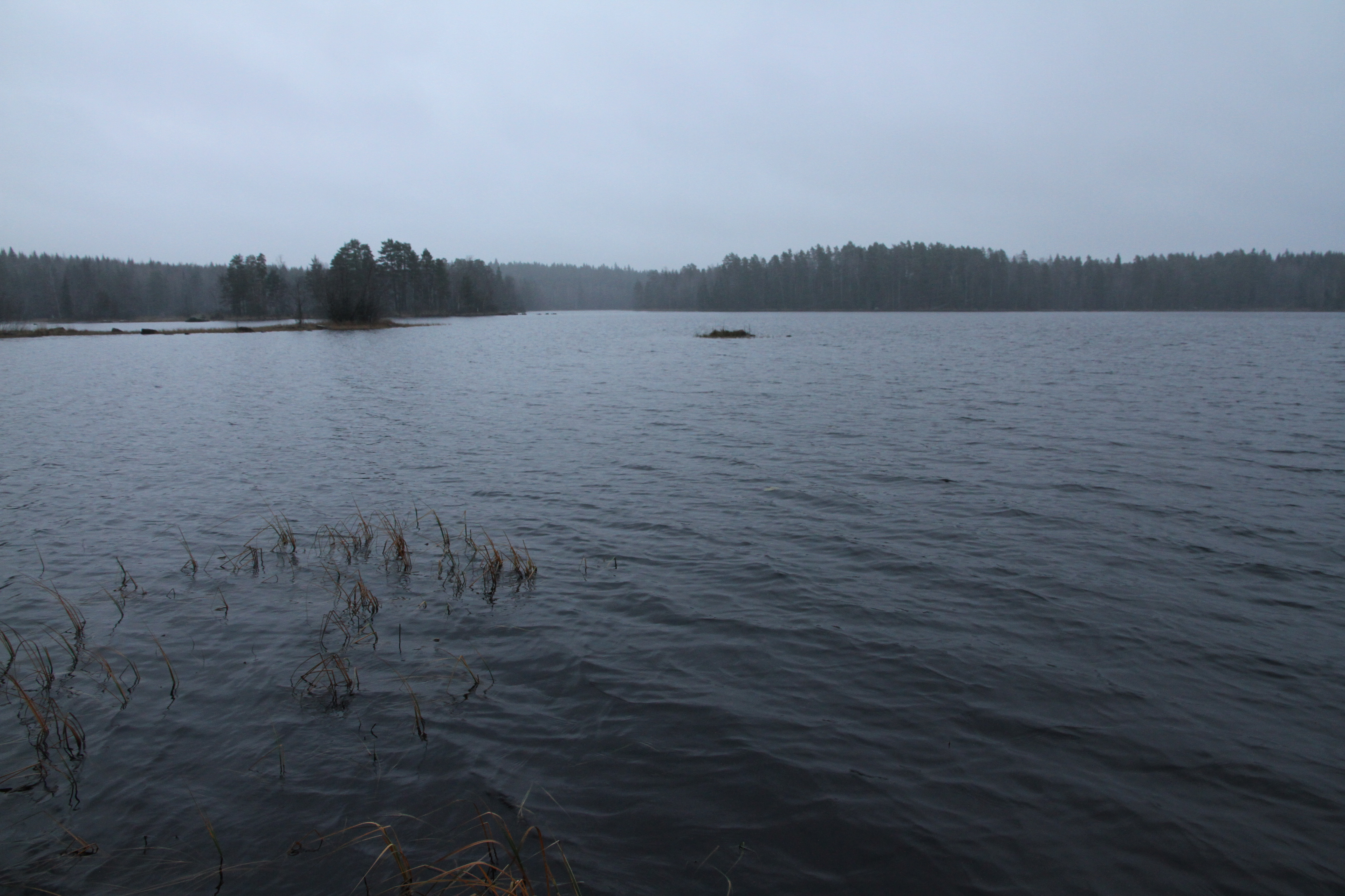 Liesjärvi National Park, Finland.